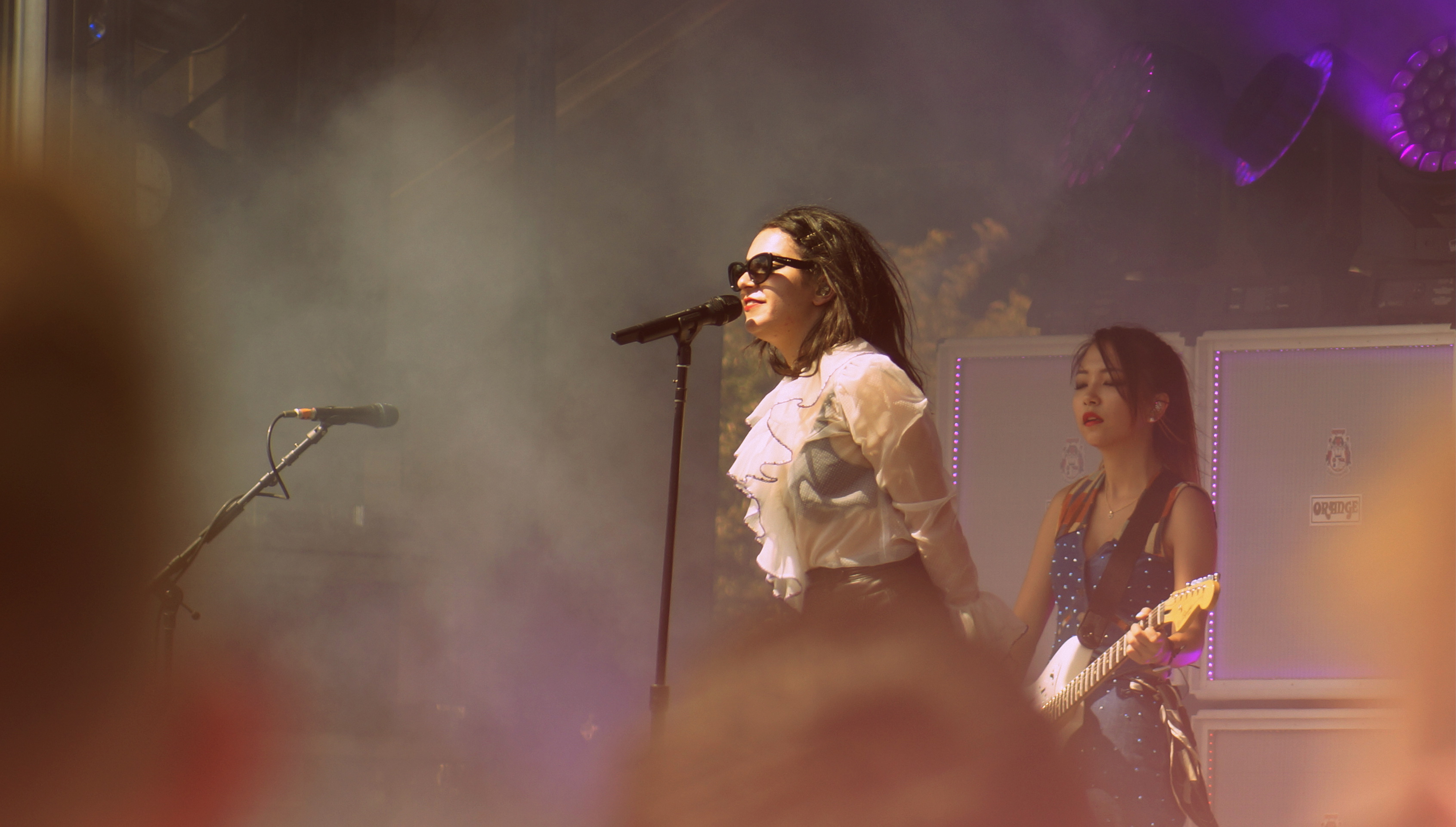 Pop star Charli XCX at Lollapalooza 2015 More freely usable Lollapalooza 2015 Pictures.